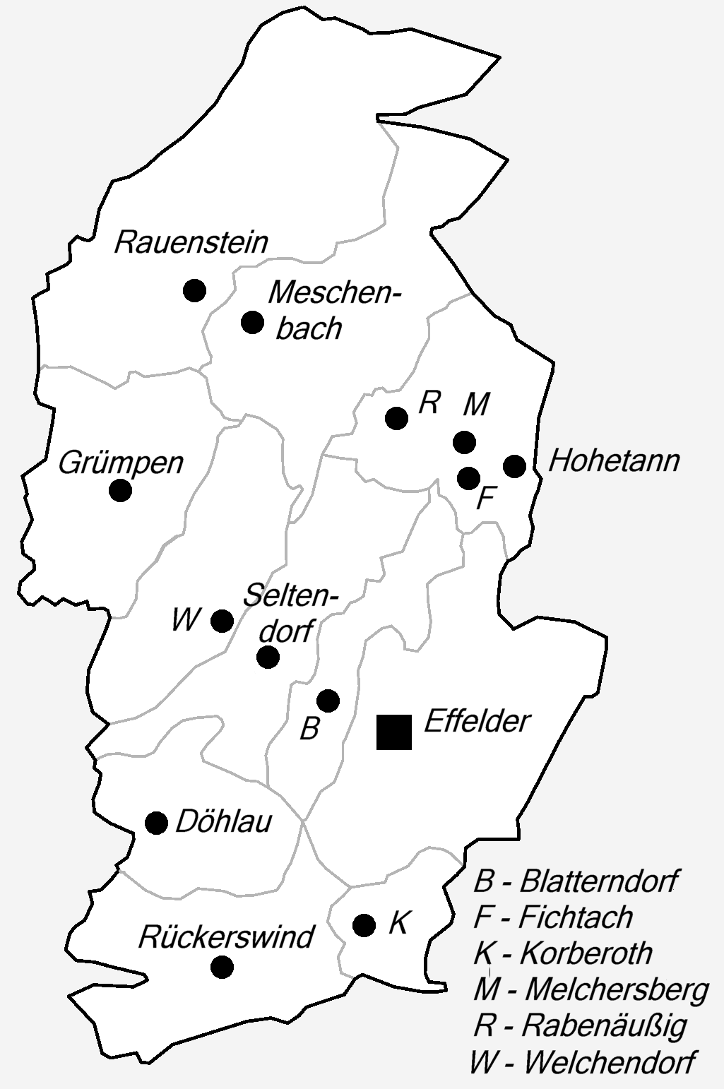 District-Maps of Effelder-Rauenstein.